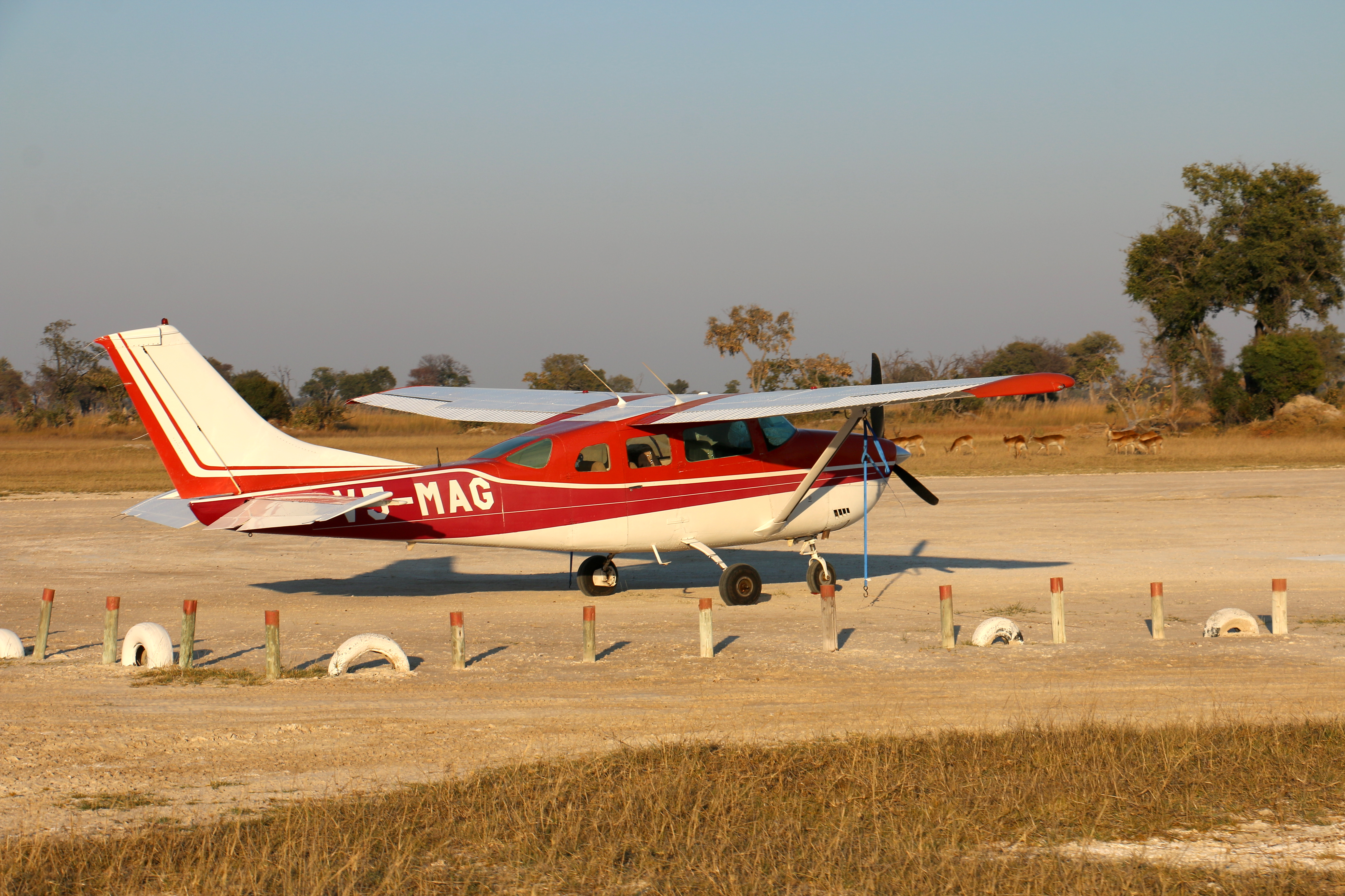 Aircraft after landing in the Okavango-Delta. Letschwes in the background